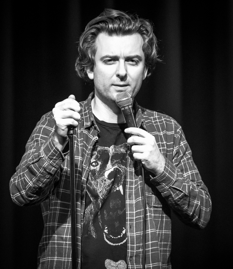 Martin Beyer-Olsen on the stage at Parkteatret. The comedy event took place on 27. January 2017 in Oslo as part of Crap Comedy festival 2017. Lineup: Paul Foot (comedian) Eddie Pepitone (comedian)